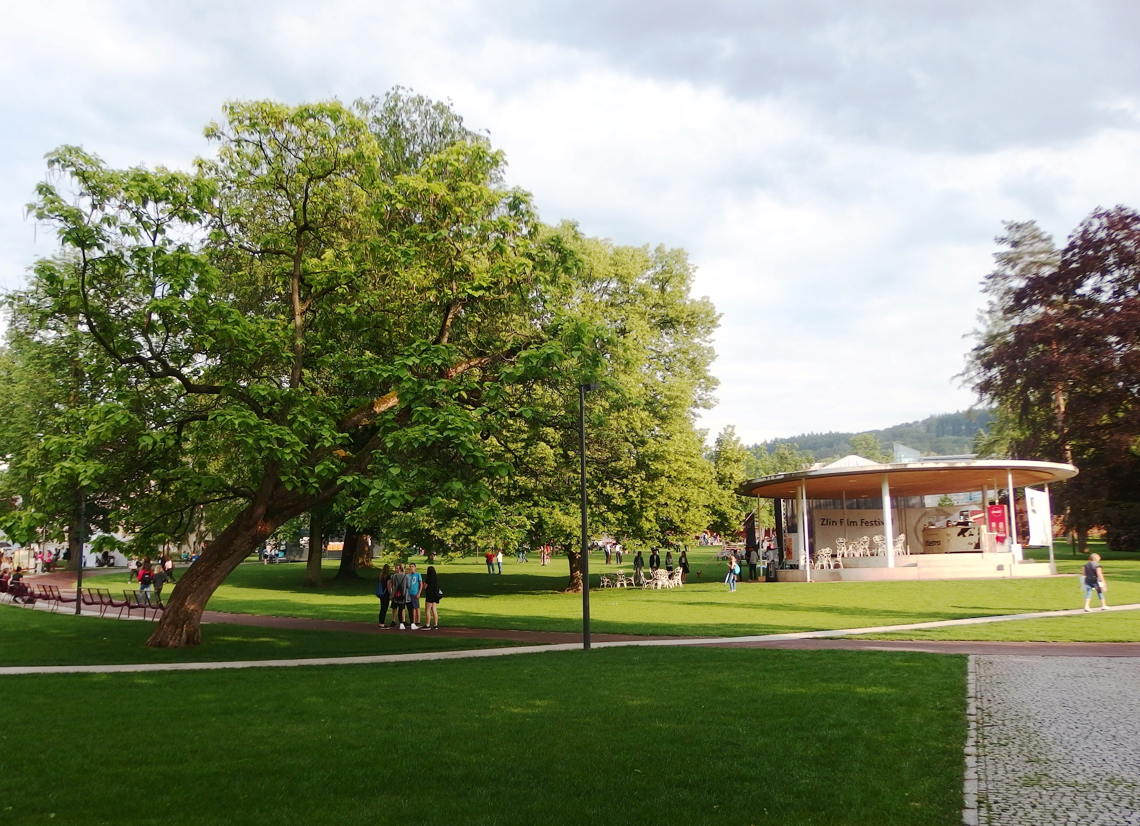 Zlín, Czech Republic.